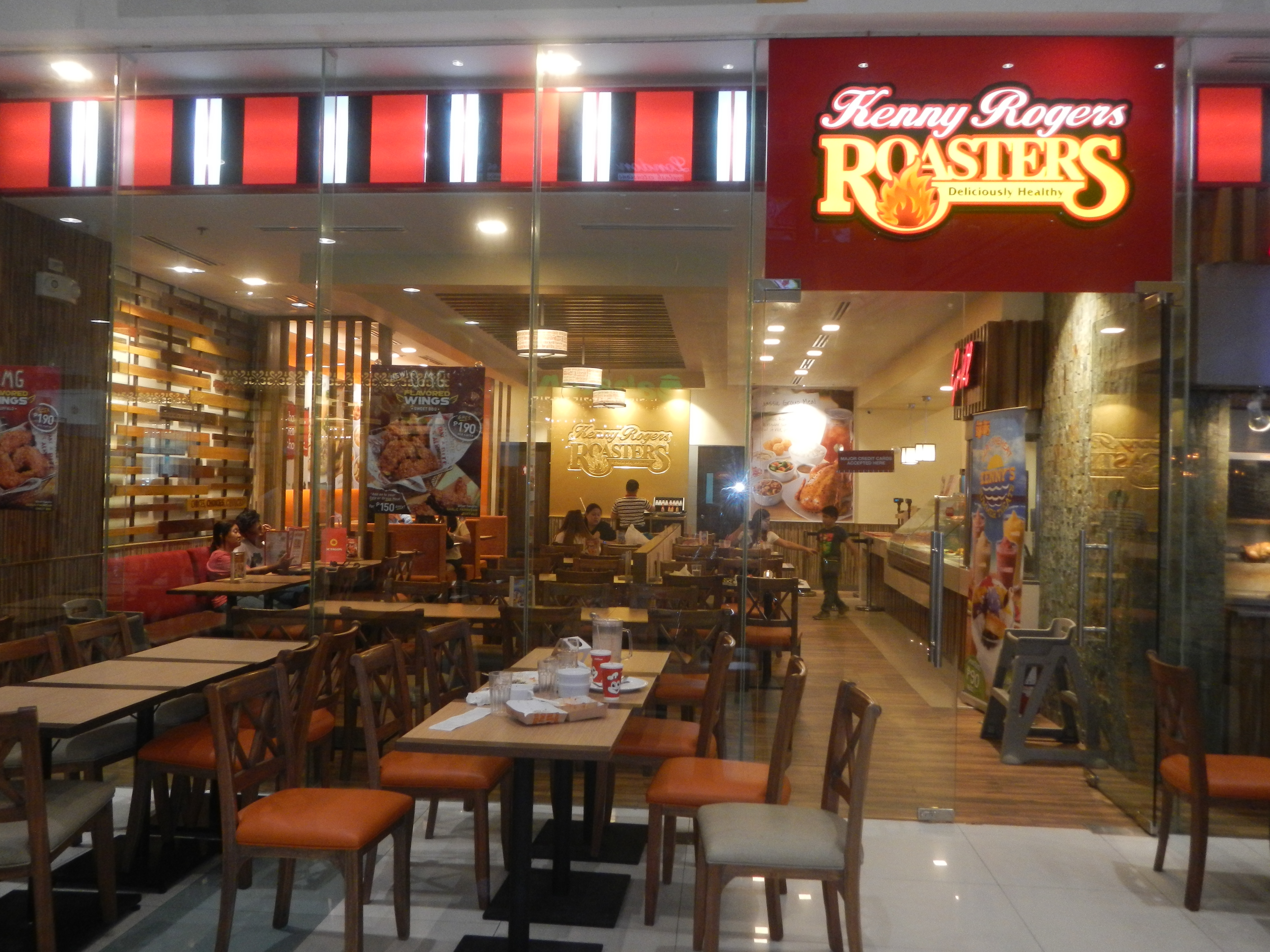 Kenny Rogers Roasters restaurants in Bulacan in SM City Baliuag in Barangay Pagala, 14°58'14"N 120°53'26"E Baliuag, Bulacan, Bulacan province (Note: Judge Florentino Floro, the owner, to repeat, Donor Florentino Floro of all these photos hereby donate gratuitously, freely and unconditionally all these photos to and for Wikimedia Commons, exclusively, for public use of the public domain, and again without any condition whatsoever).